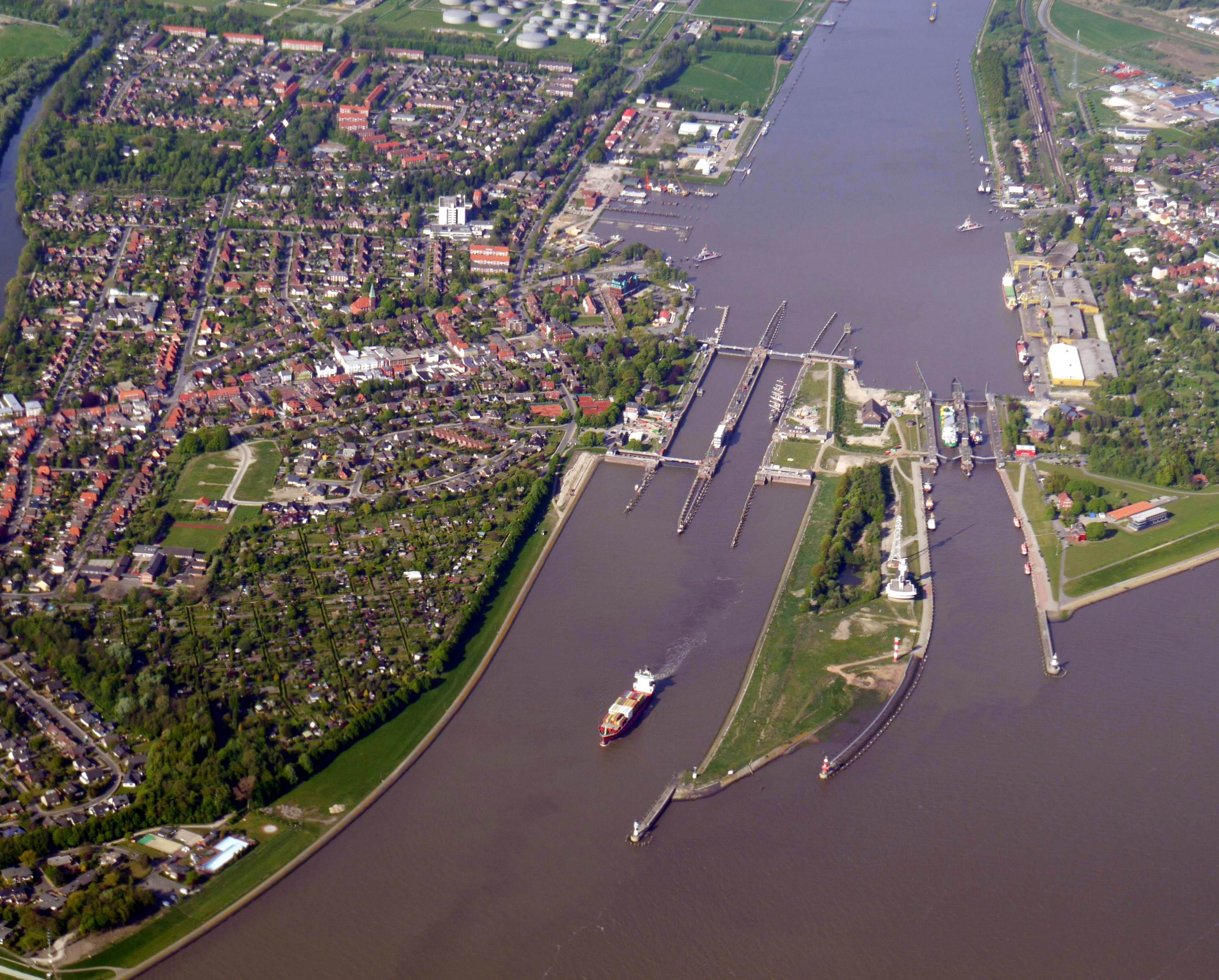 Kiel Canal, Brunsbüttel